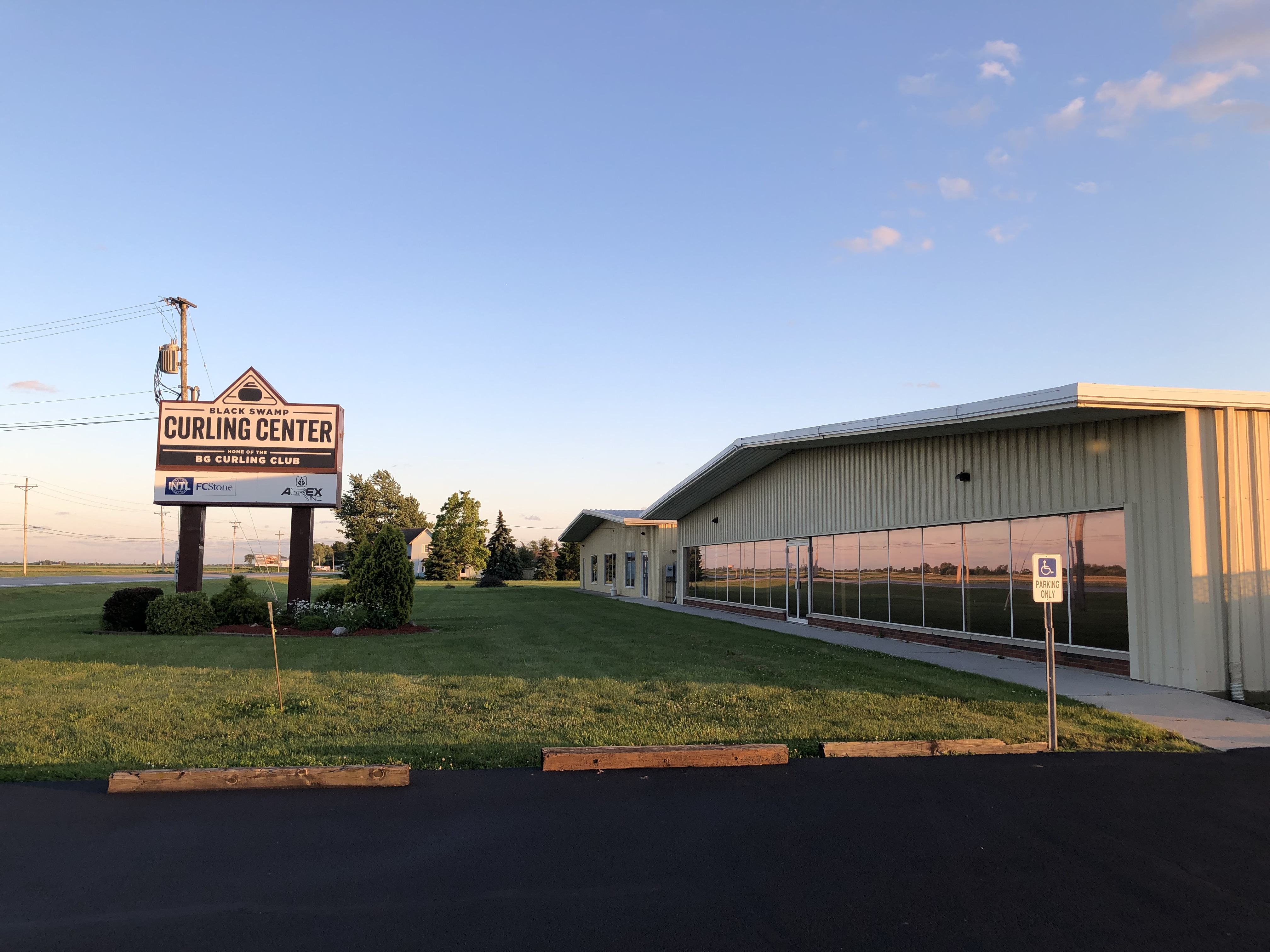 The Black Swamp Curling Center on the outskirts of Bowling Green, operated by the Bowling Green Curling Club